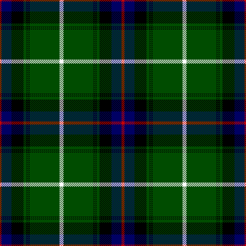 MacDonald of the Isles tartan, as published in the Vestiarium Scoticum. Modern thread count: R6 B20 Bk24 G6 Bk2 G2 Bk2 G60 W8.